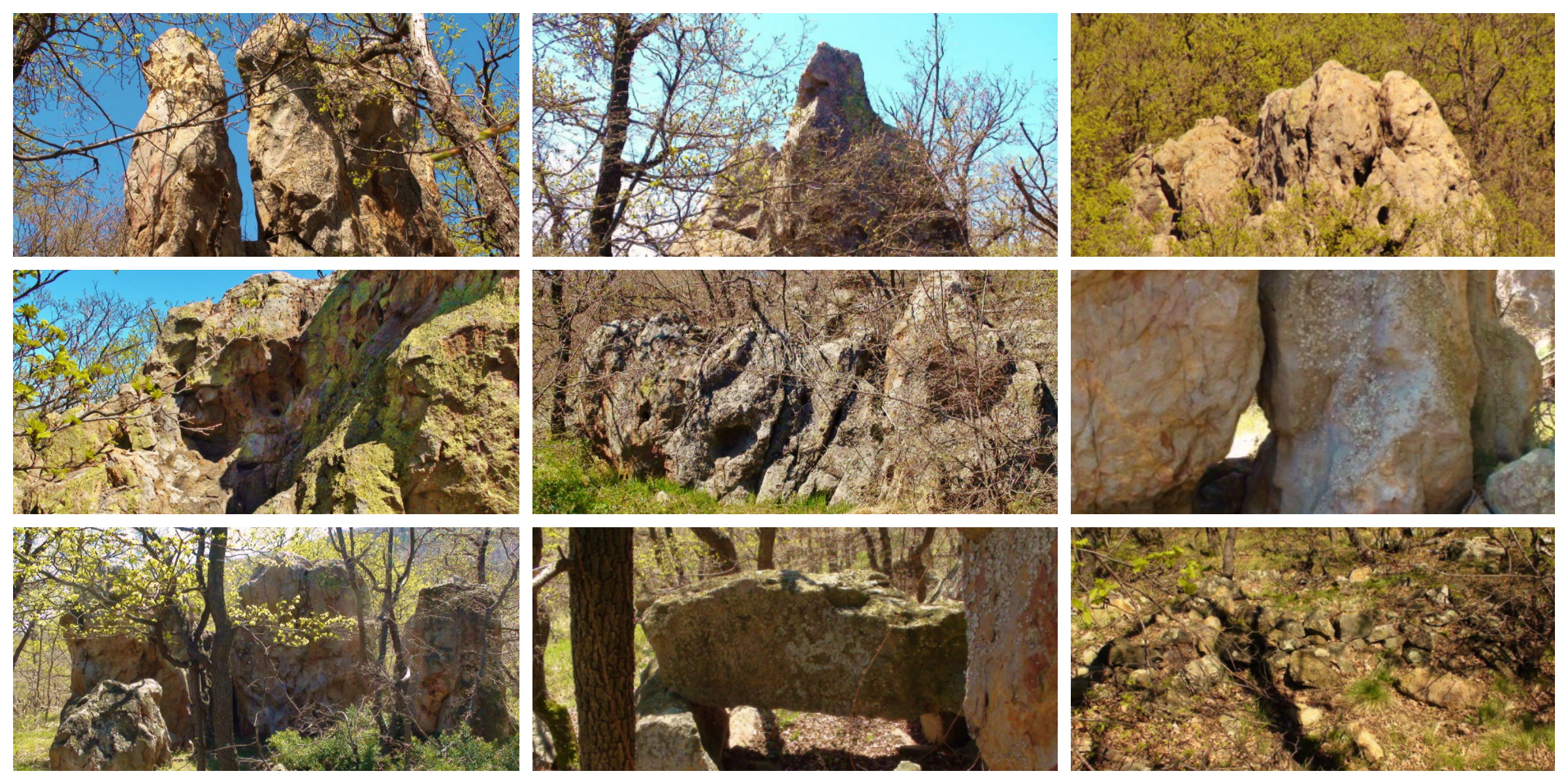 Carved_stones_Pozharisteto_Sanctuary_Bryastovo_Haskovo_Bulgaria